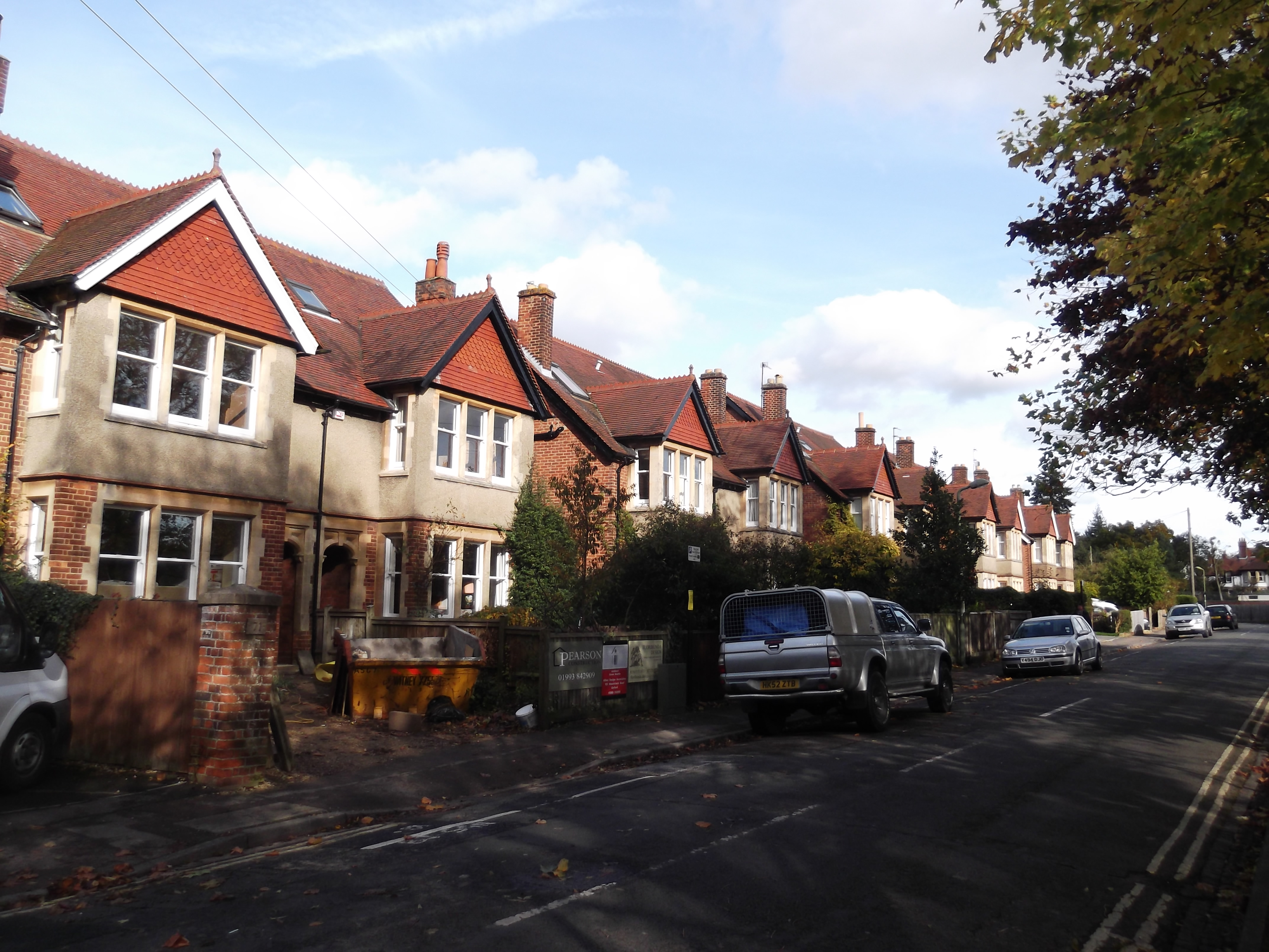 Street in north Oxford, England.